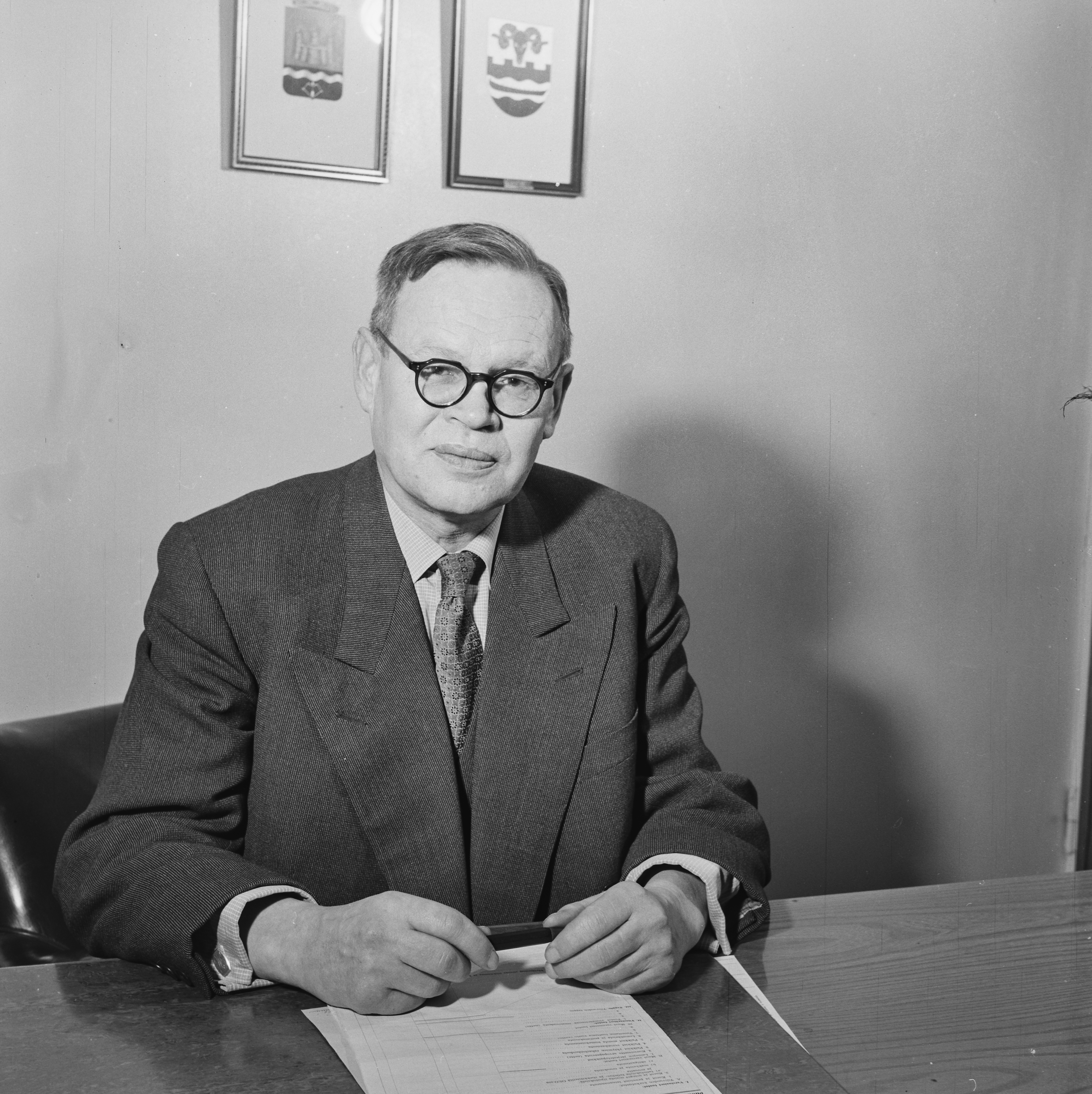 Photograph of the Finnish engineer and mayor Viljo Hyvärinen (1897–1974).